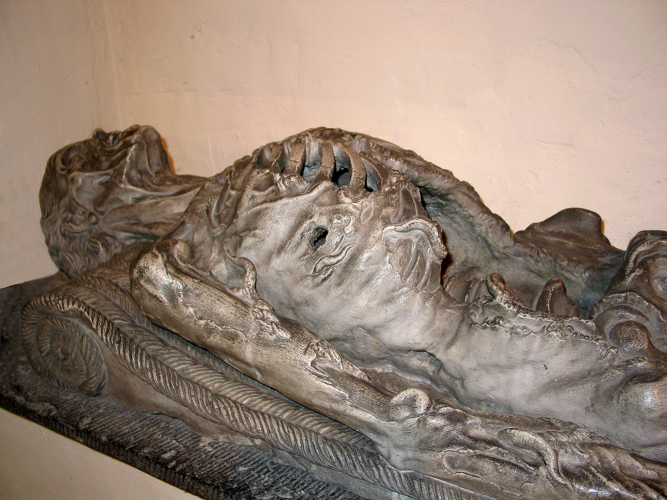 Boussu (Belgium), lying (XVIth century) often called in the local patois "l'homme à moulons" (expression meaning cadaver eaten by worms).